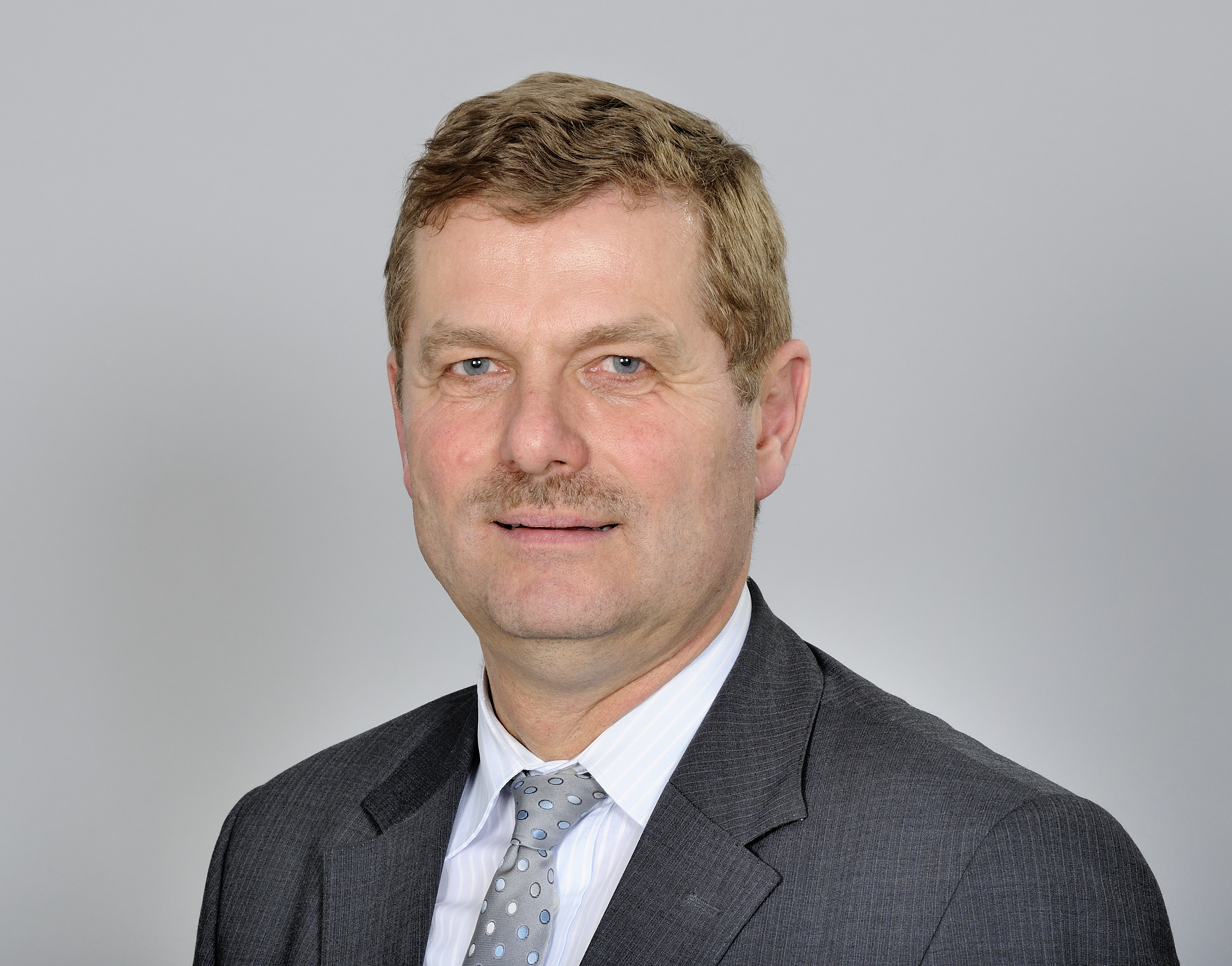 Frank Heidan, Saxon politician (CDU) and member of the Landtag of the Free State of Saxony (as of 2013).